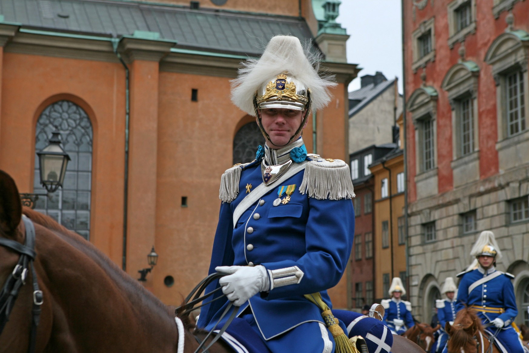 Lifeguards officer Johan Wennerholm